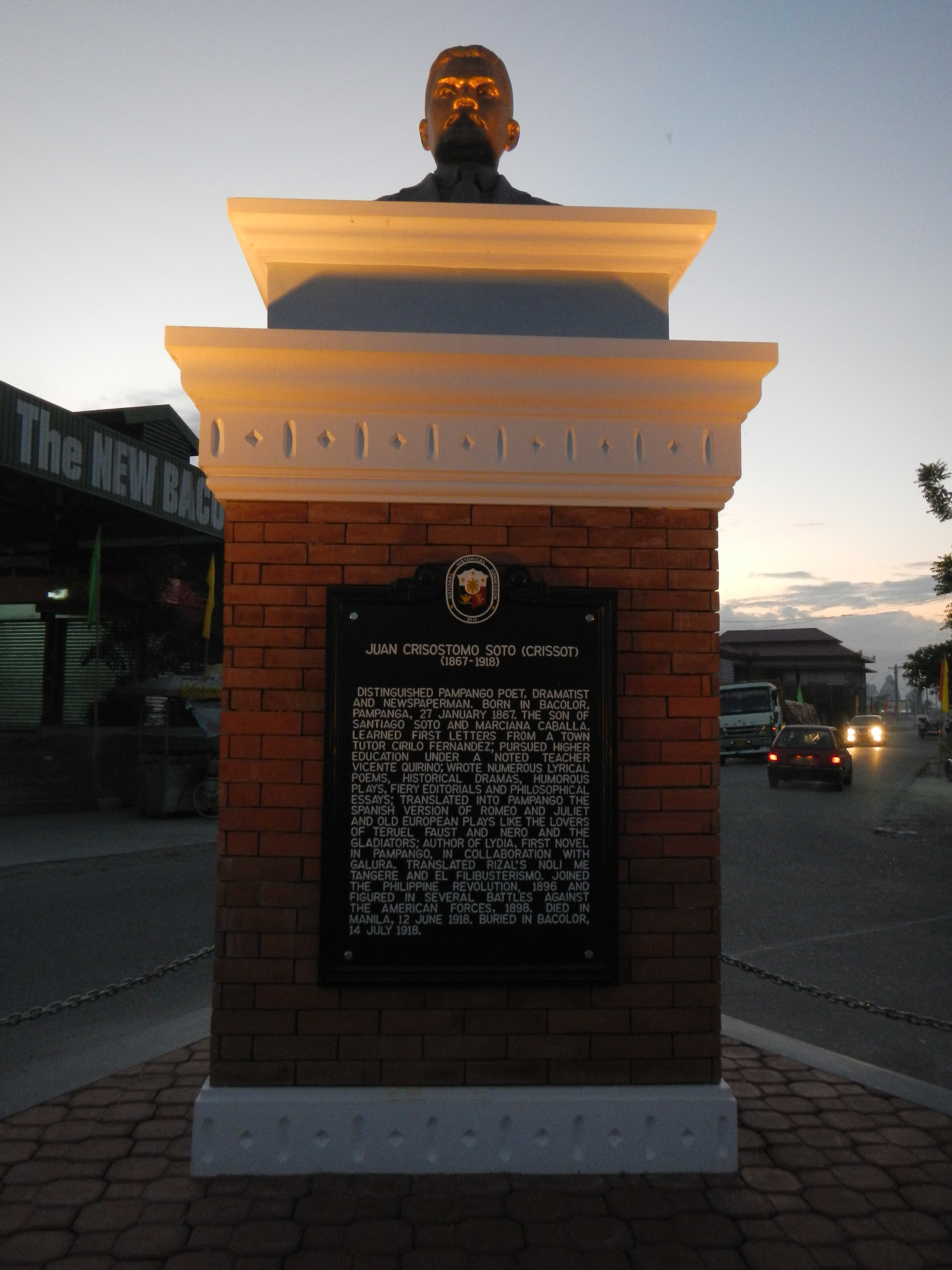 [1]Juan Crisostomo Soto - Kapampangan writer, revolutionary leader and veteran of the Philippine–American War. Father of Kapampangan poetic debate, Crissotan, and author of "Alang Dios" (There is no God), Perlas quing Burac, Anac ning Katipunan, Lydia and many others Zarzuelas and Playwrights.